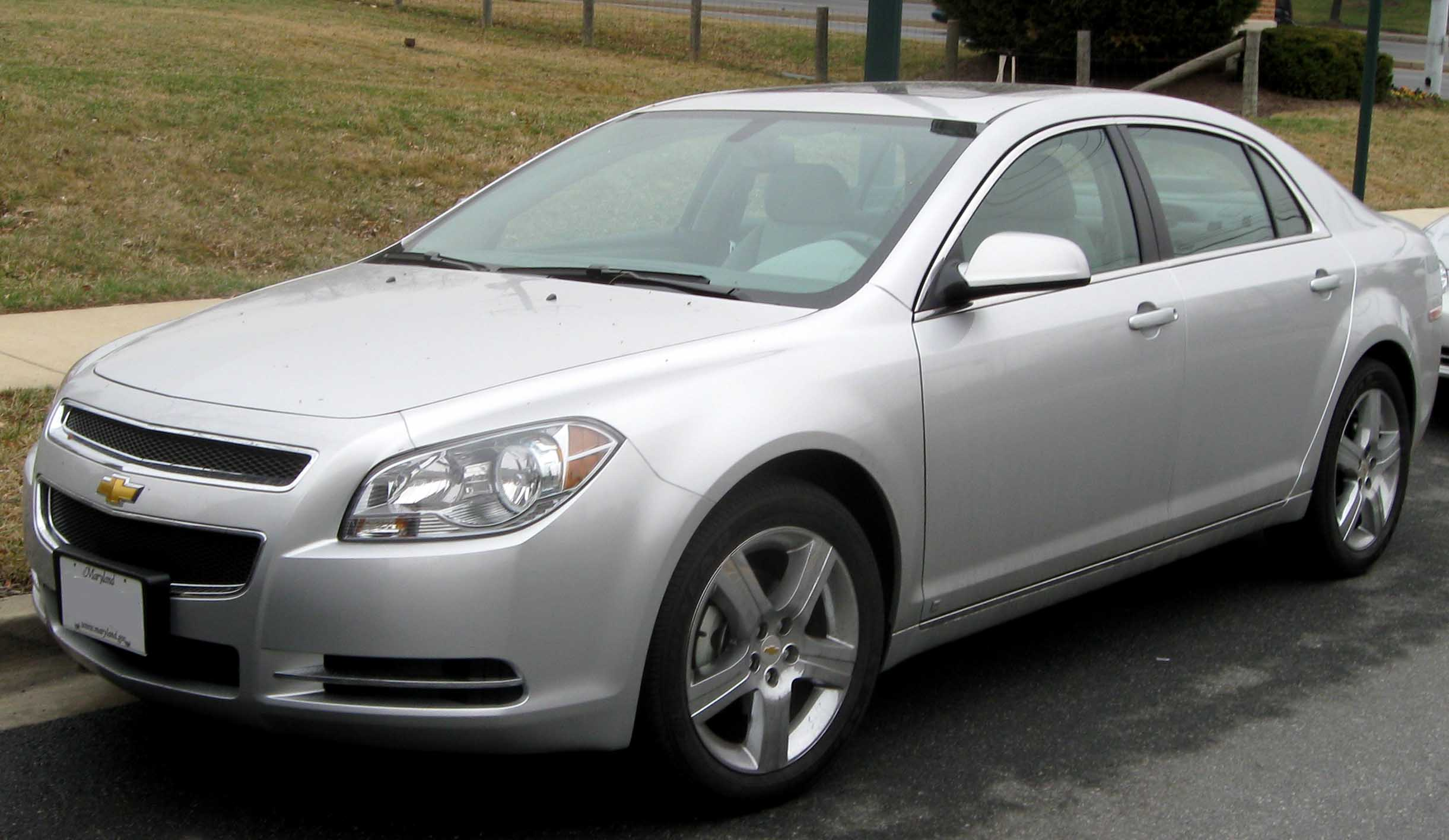 2008-2009 Chevrolet Malibu photographed in Rockville, Maryland, USA.